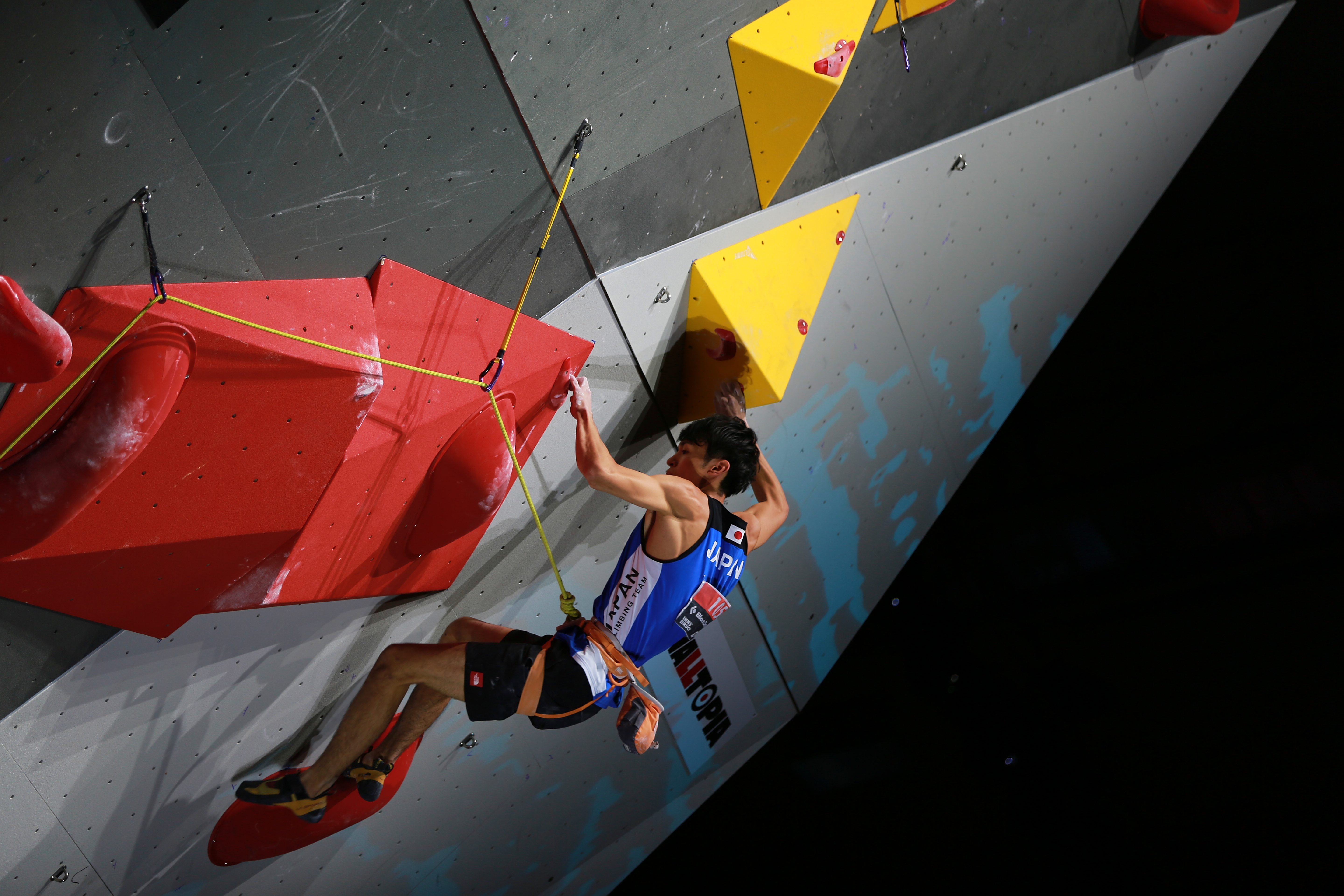 IFSC Climbing World Championships Innsbruck 2018 Final MAN lead 105 NARASAKI Meichi JPN